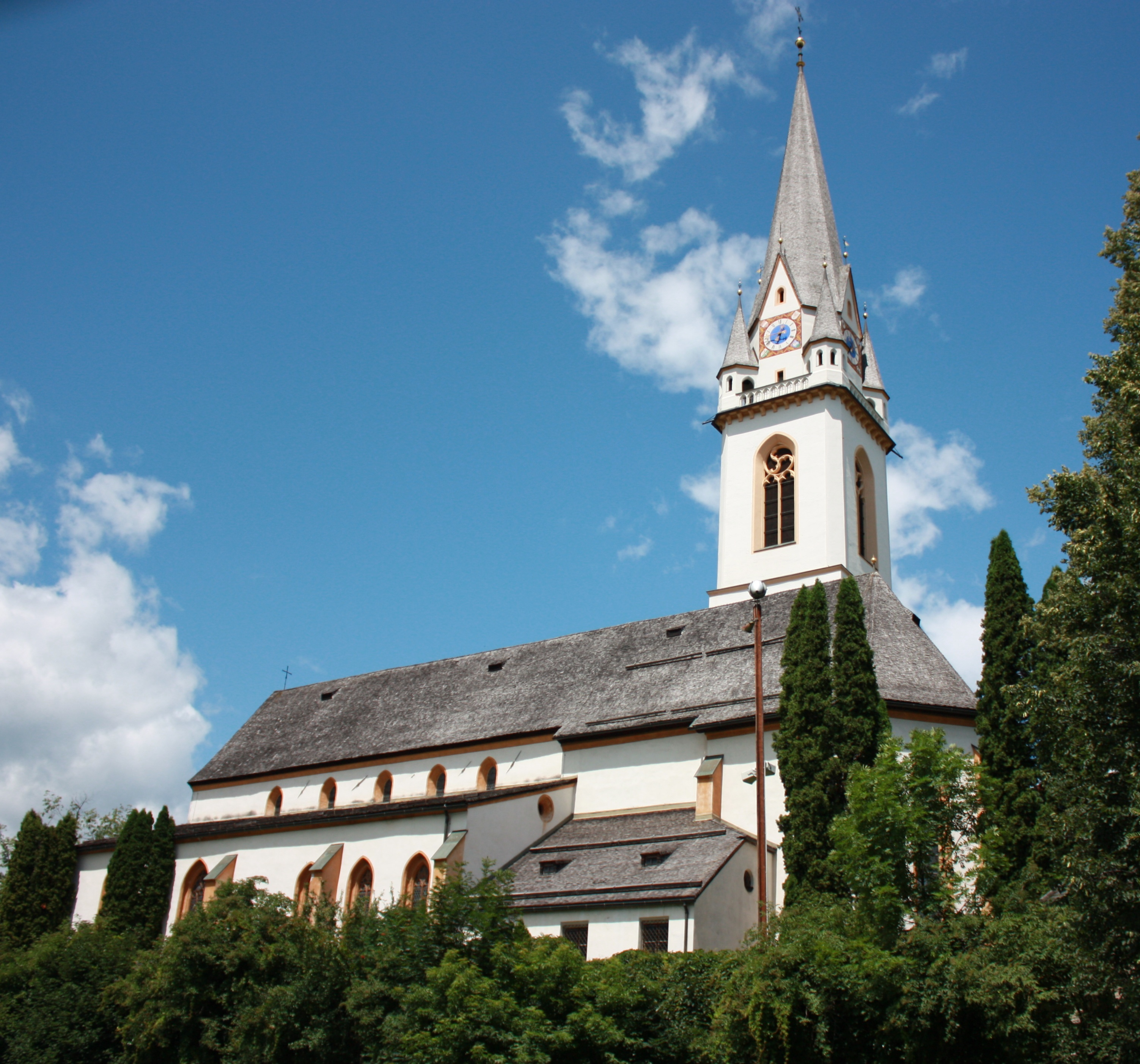 Parish church Saint Andrew Locality:Pfarrgasse Community:Lienz